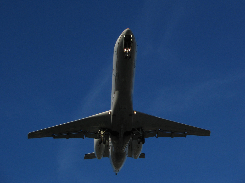 Continental Embraer 135, airplane produced in Brazil.